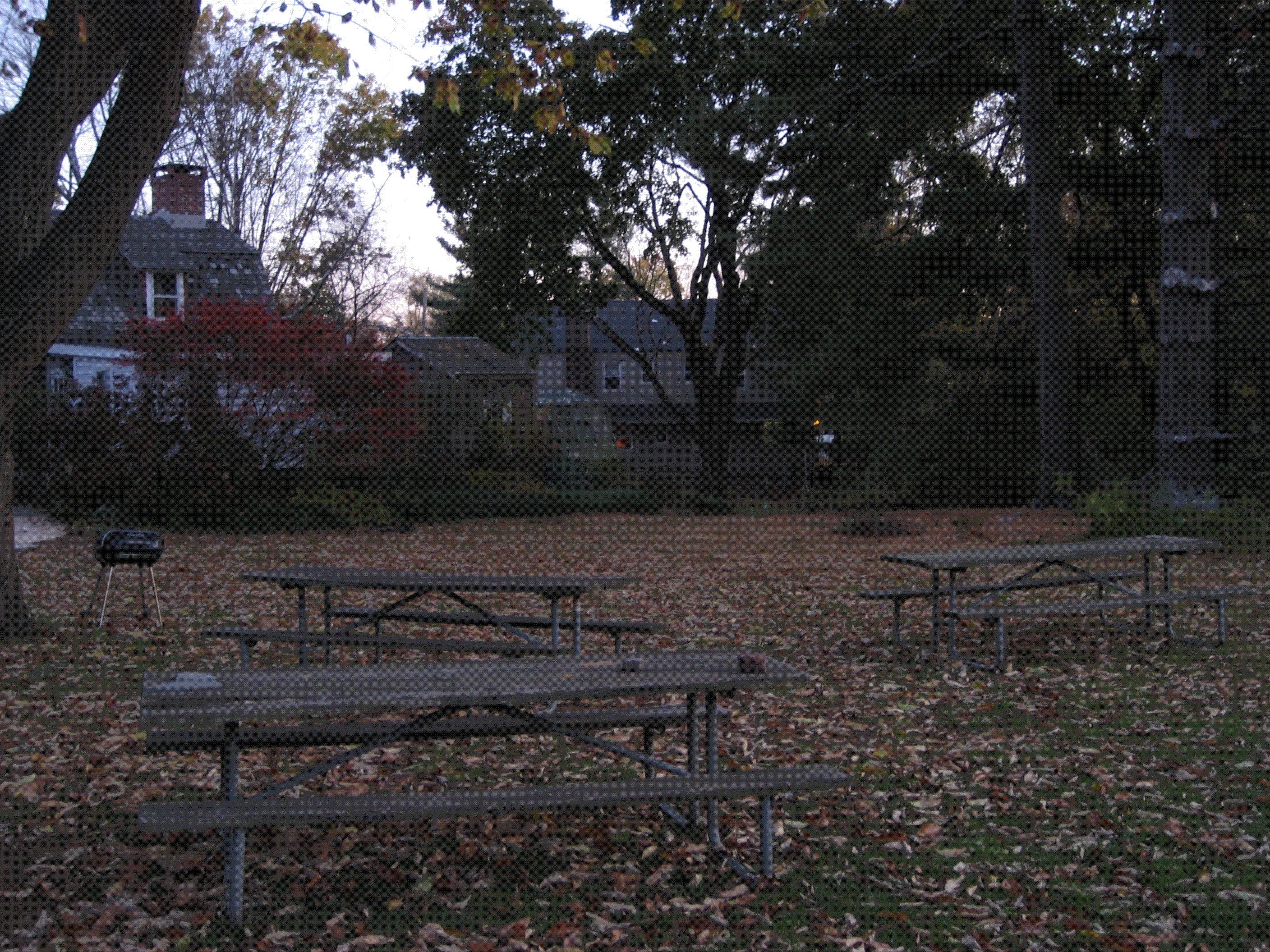 Garretson Forge and Farm — Recreation and Picnic Area. Open air agriculture museum in Bergen County, New Jersey.